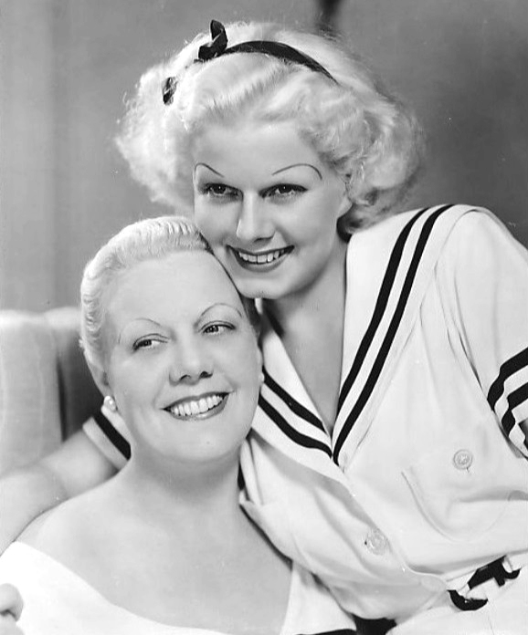 Actress Jean Harlow poses for a photo with her mother, "Mama Jean".